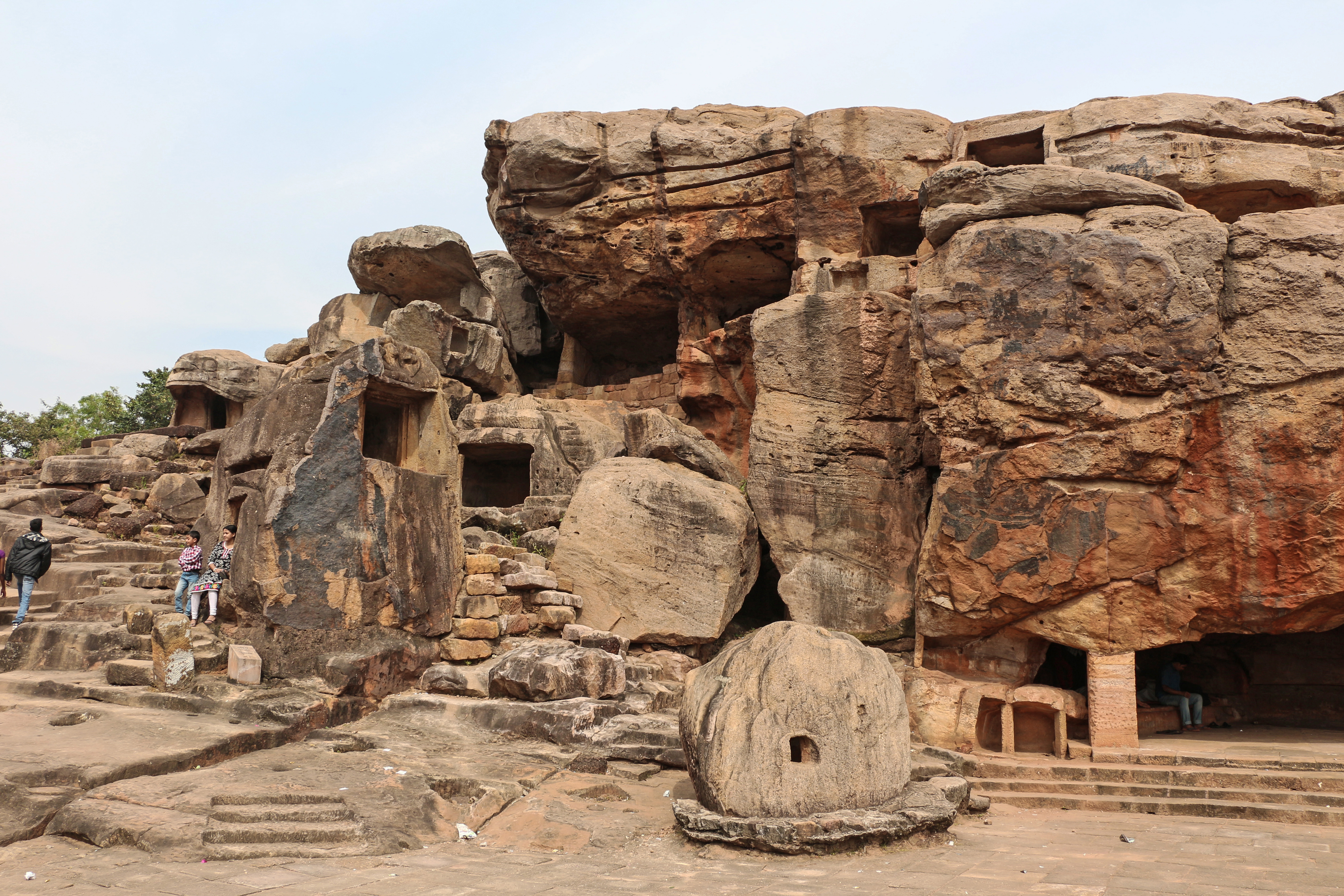 Sarpa Gumpha, Udayagiri Caves, near Bhubaneswar, India